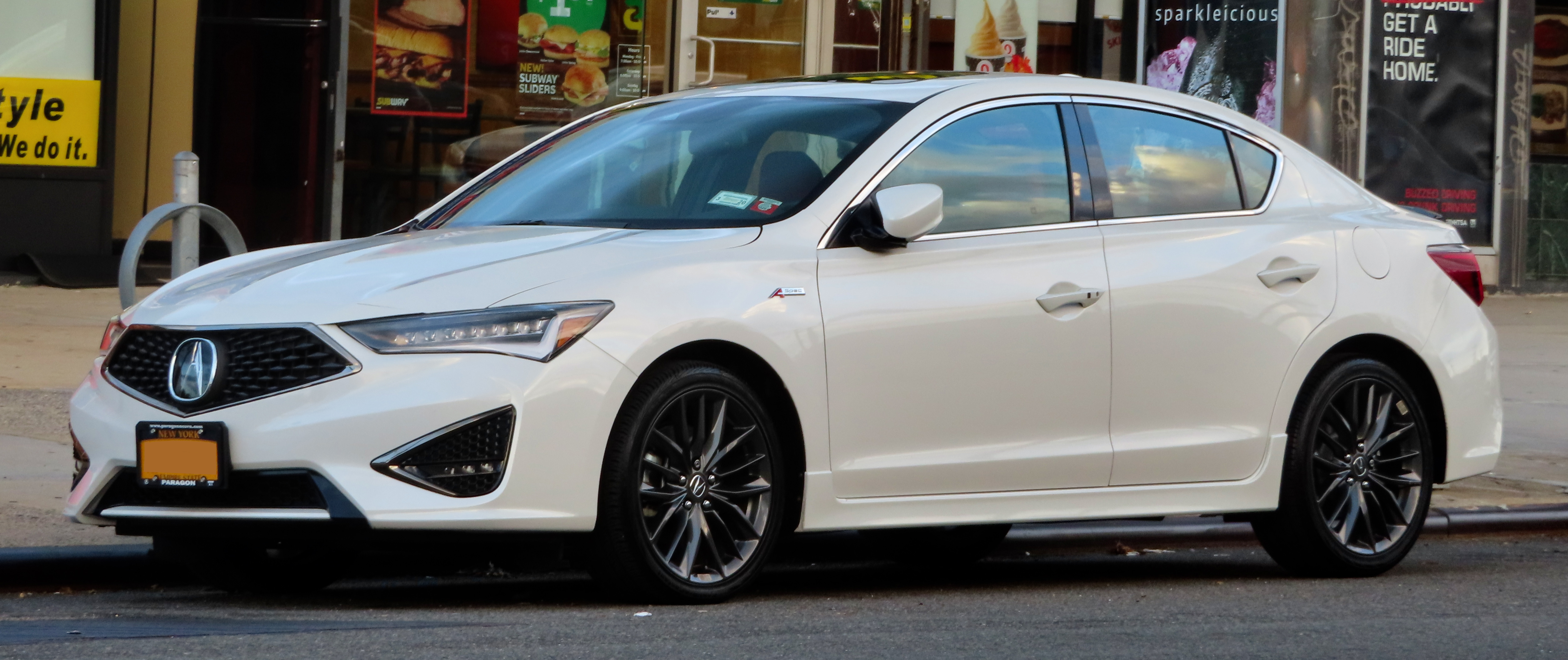 A 2019 Acura ILX photographed in Bayside, Queens, New York, USA